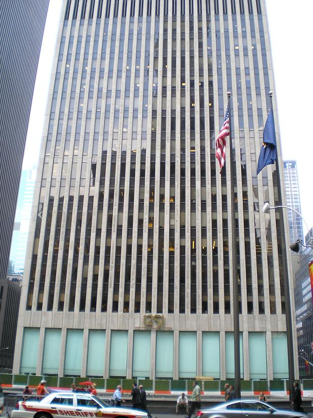 1251 Avenue of the Americas, formerly known as the Exxon Building. Rockefeller Center, New York City.